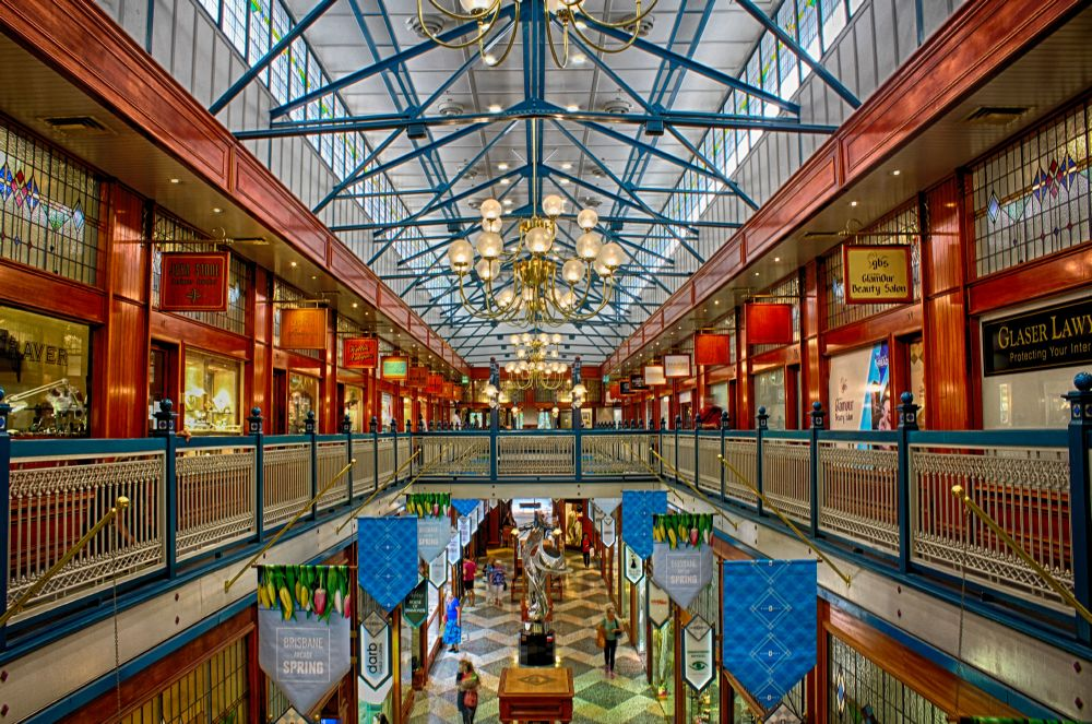 Brisbane Arcade, balcony level (2016)